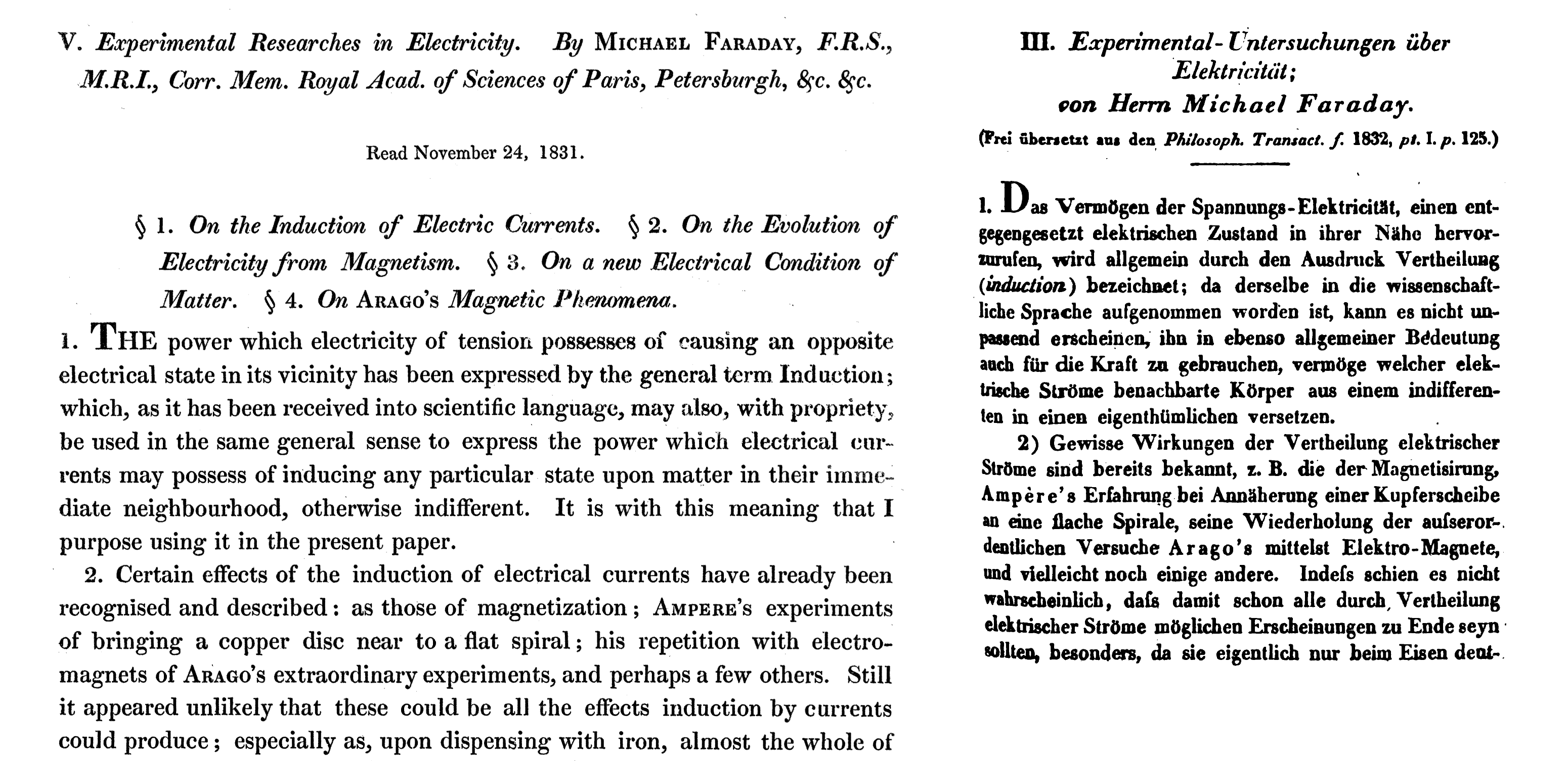 Experimental Researches in Electricity English_Orignial vs. Gerrman_Translation